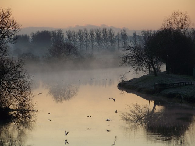 Bann River at Portadown Misty and cold from the Bann Bridge